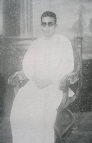 A portrait of Indian freedom-fighter and politician, M. Bhaktavatsalam